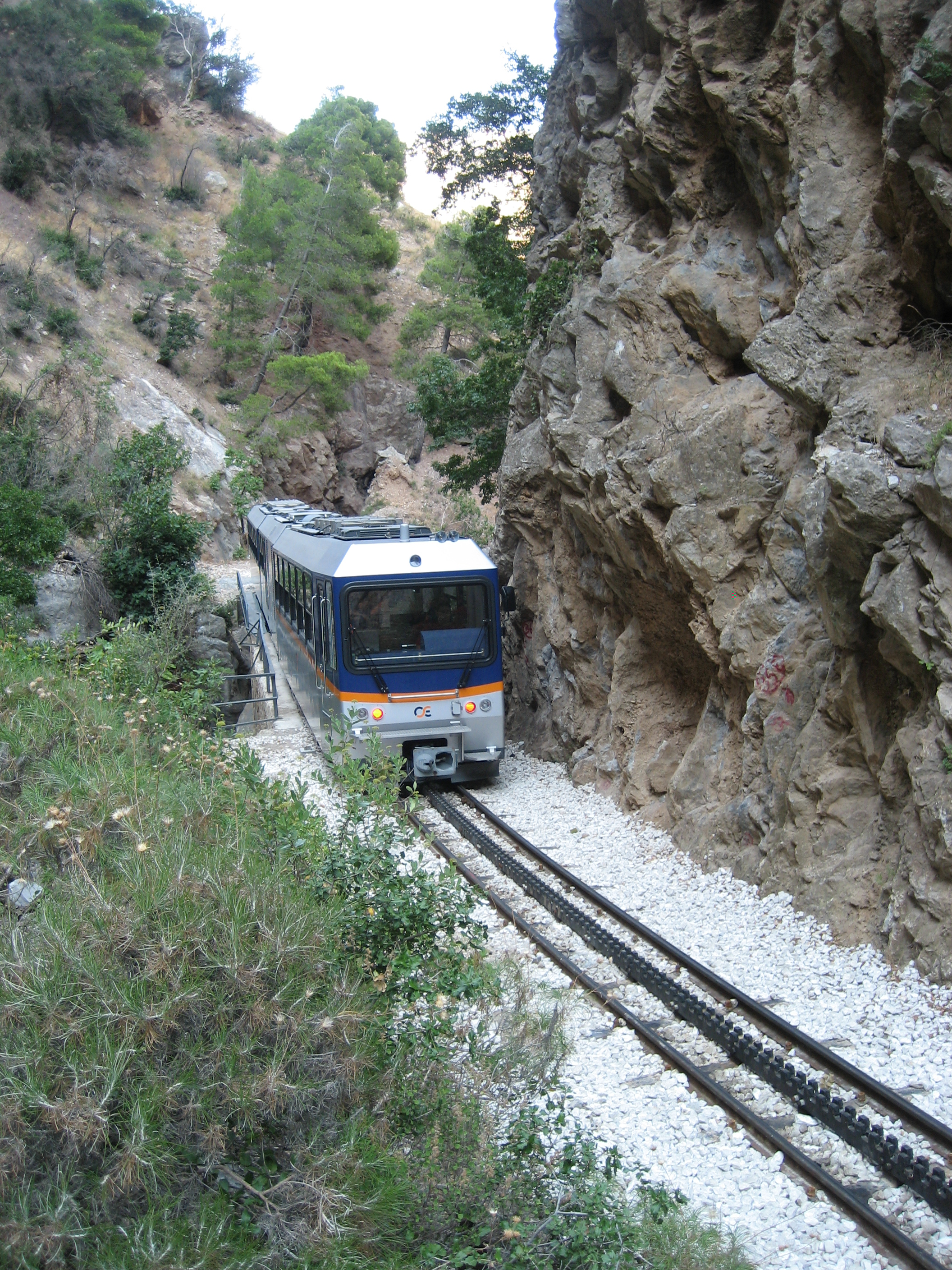 Diakofto-Kalavrita railway, Greece